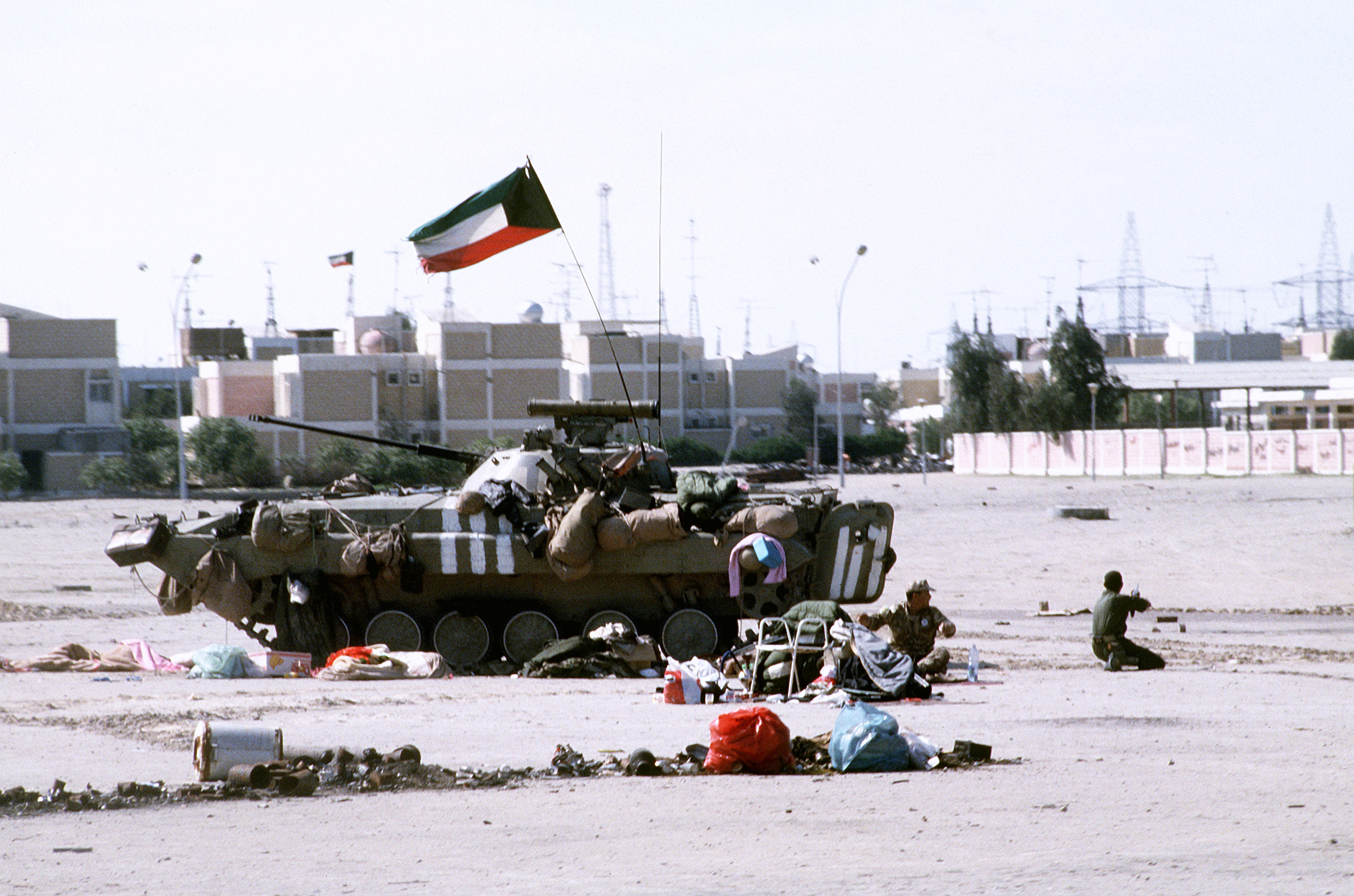 Kuwaiti soldiers sit beside a Kuwaiti BMP-2 infantry fighting vehicle (the original caption hints that it was captured from the Iraqis) during Operation Desert Storm.